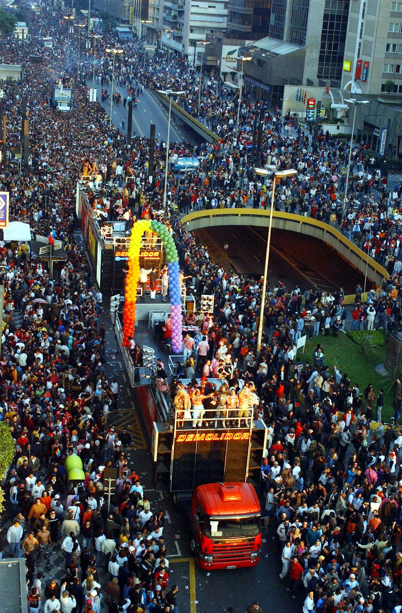 VIII Gay Pride in São Paulo, Brazil